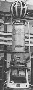 The San Marco 1 satellite in checkout at Wallops Flight Facility. San Marco 1 was the first satellite launched by the Italian Space Agency. It was Italian-built, with NASA providing a launch vehicle (a Scout rocket), use of facilities, and training of Italian personnel.